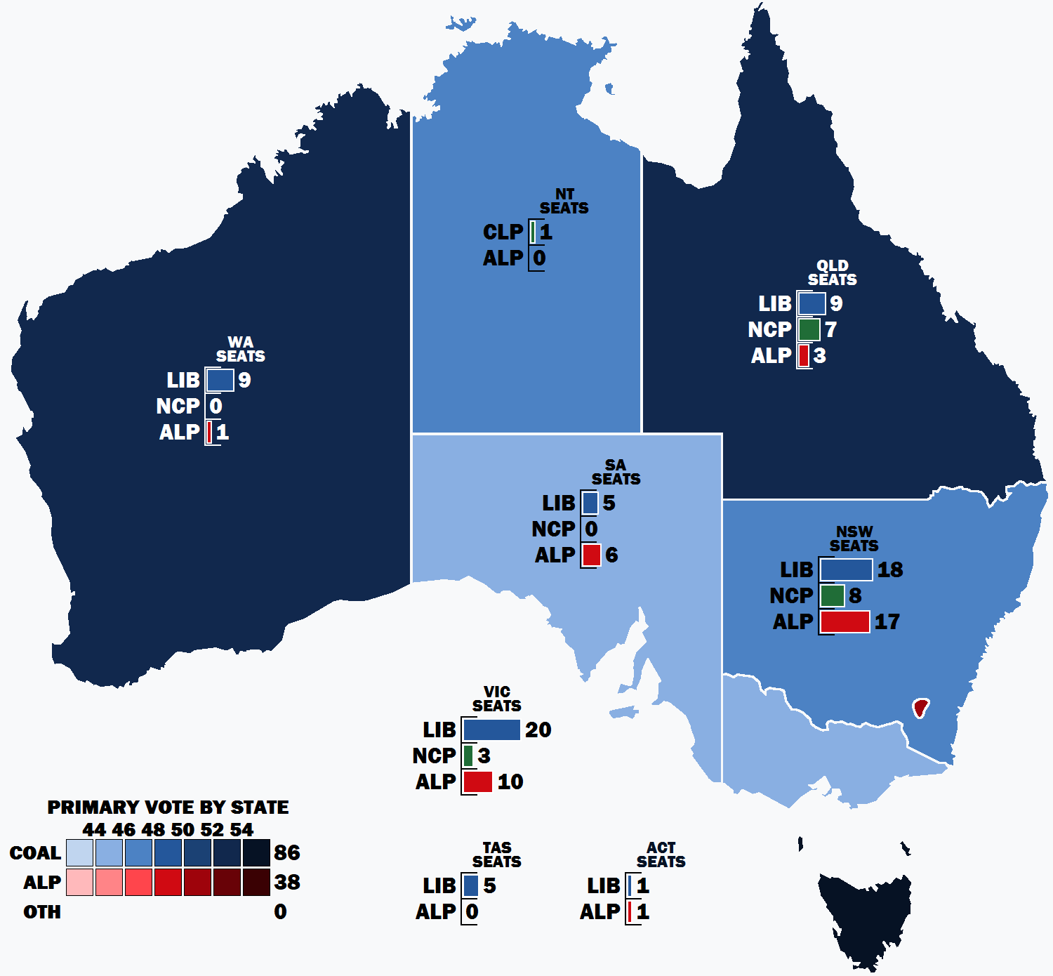 Result of the primary vote by state and territory in the 1977 Australian federal election.